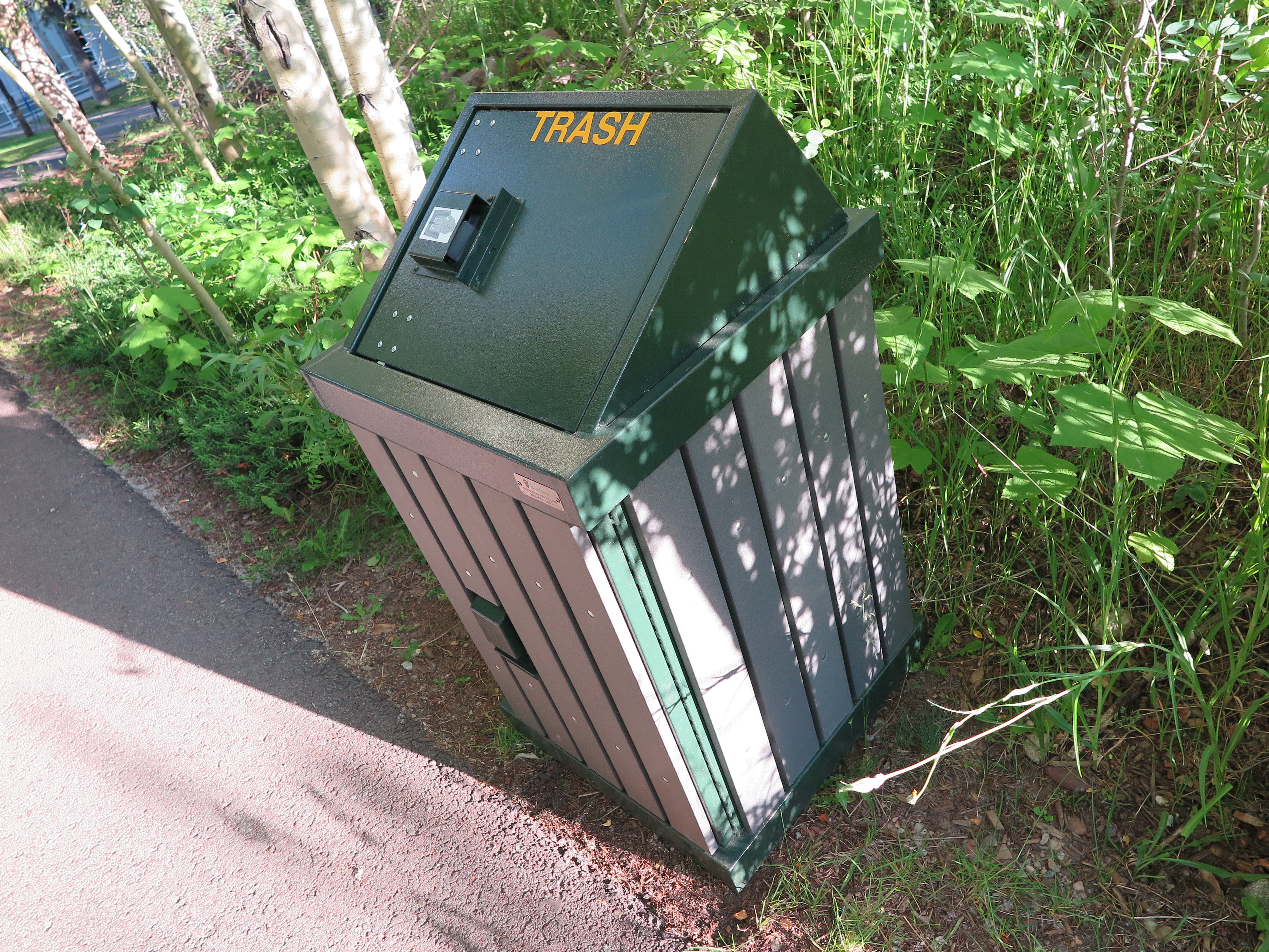 Picture from the Aspen Institute campus in Aspen, Colorado. Bear-resistant trash can at the Aspen Institute.